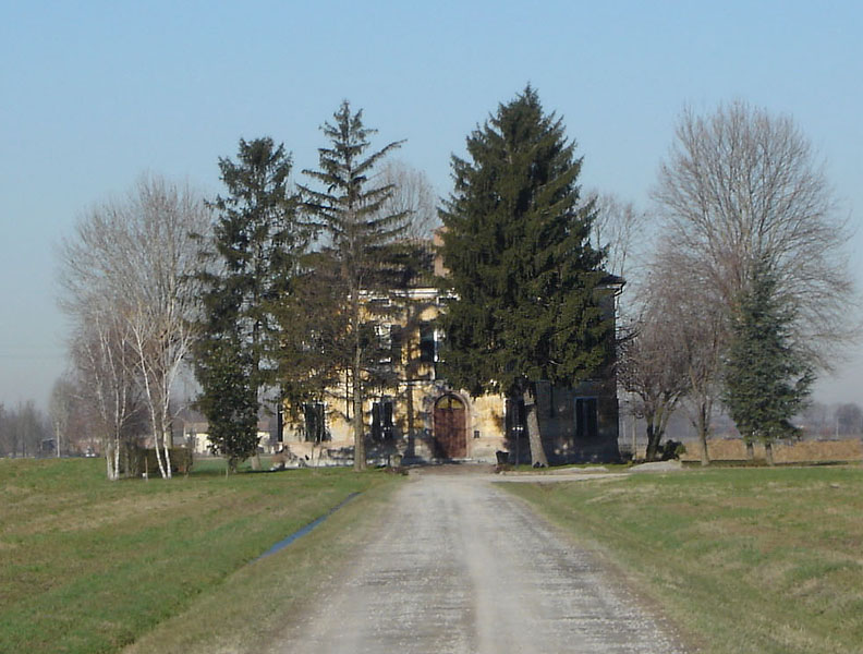 Description Villa Quillac in Vicomero, Parma - Italy. Date March 7, 2006 Location Vicomero - Parma - Italy Photographer Vittorio Minari